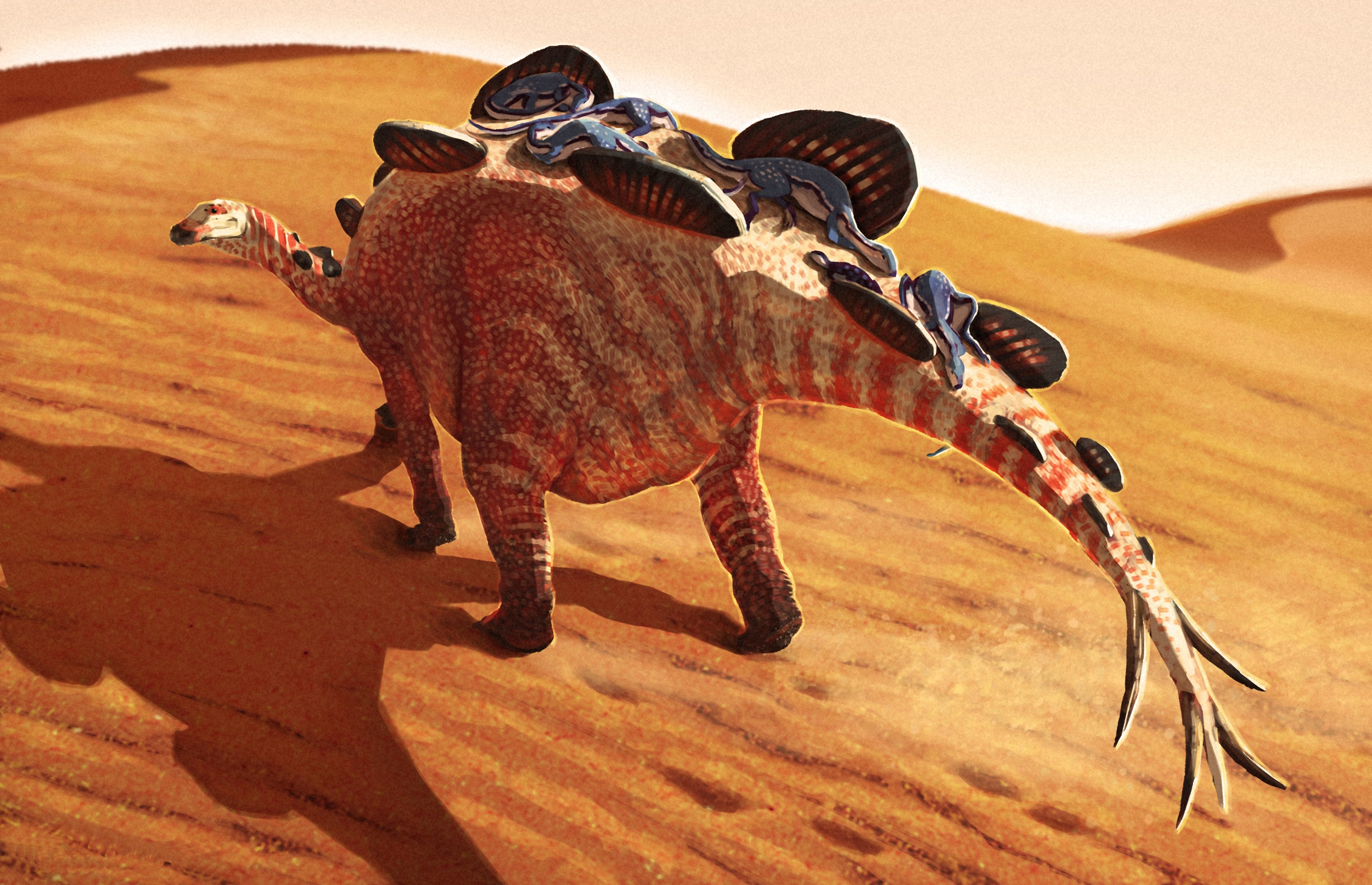 Restoration of Hesperosaurus mjosi with sleeping Othnielia rex on its back.